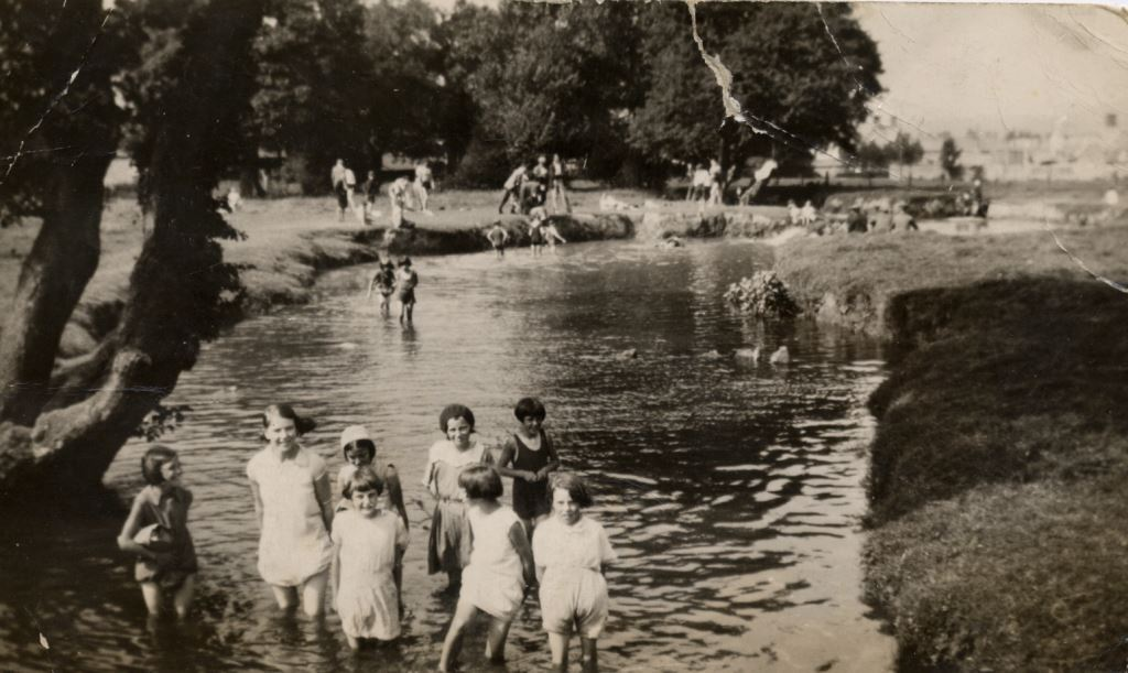 Cae Ddol 1920, Ruthin